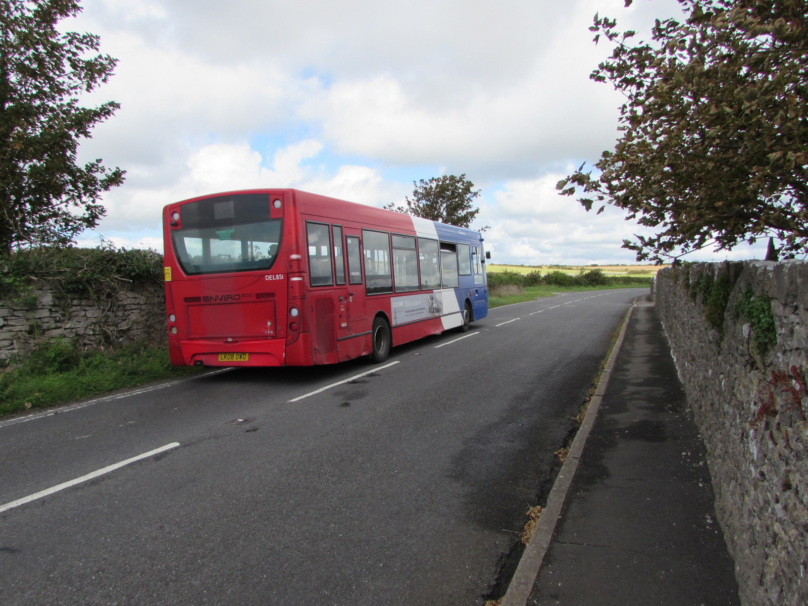 Barry bus leaving Southerndown. On September 2nd 2019 a NAT Group Enviro 200 bus on route 303 from Bridgend to Barry is travelling north on the B4524 towards St Brides Major.